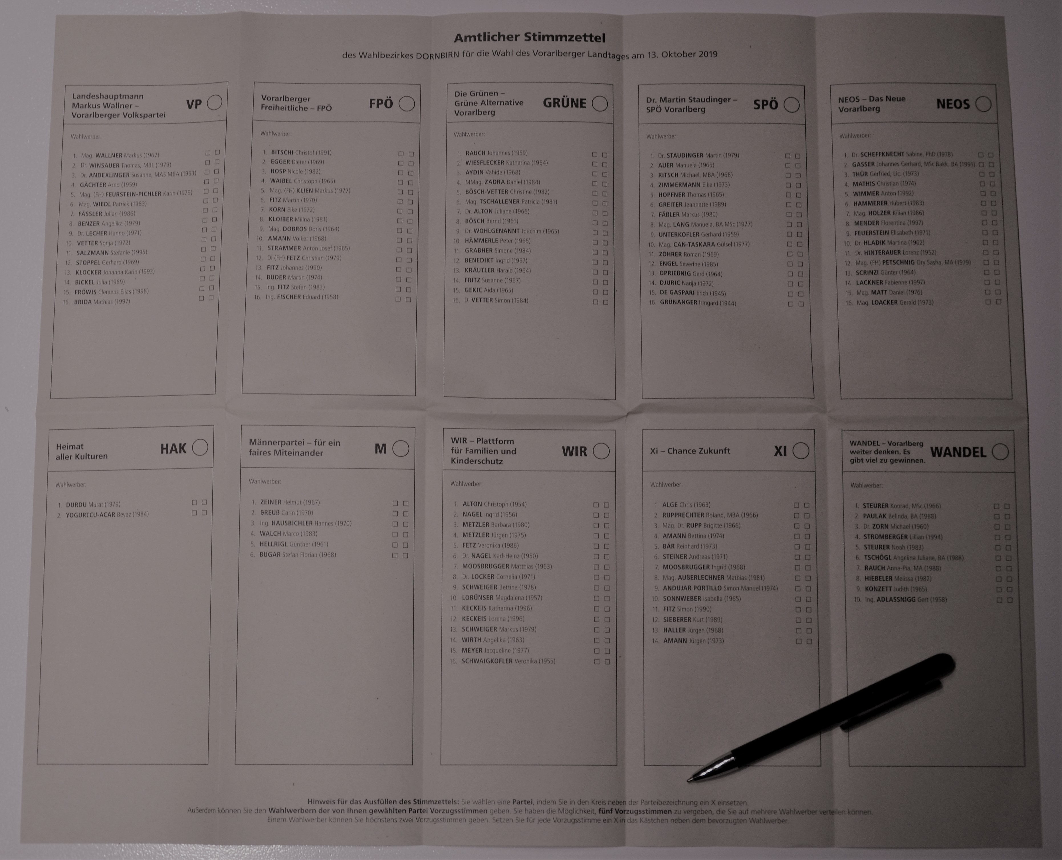 Ballot paper for the 2009 Vorarlberg state election. The ballot paper shown here was for voters in the electoral district of Dornbirn.